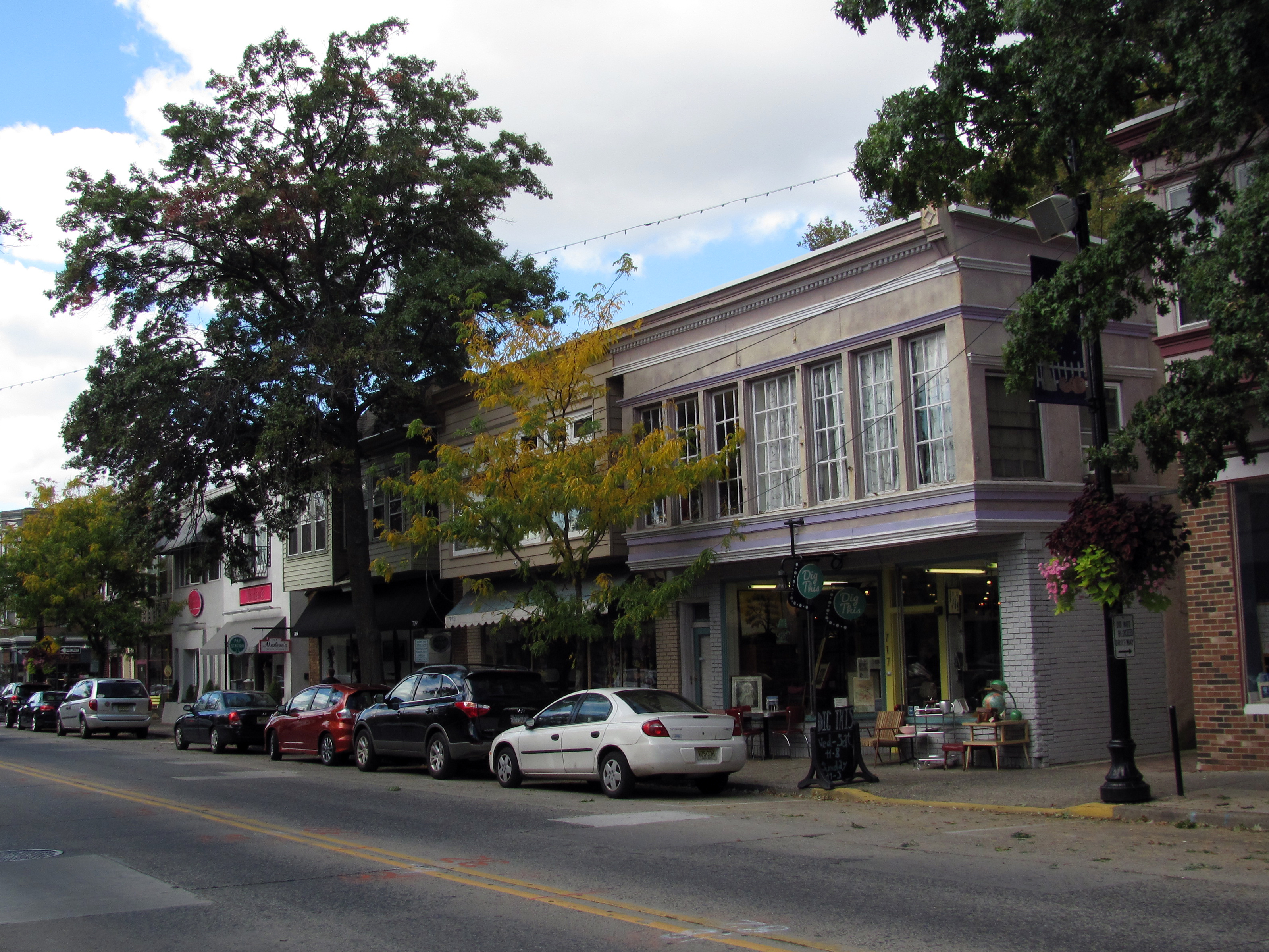 View of Collingswood Commercial Historic District, Collingswood, New Jersey, looking north from approximately 923 Haddon Avenue.